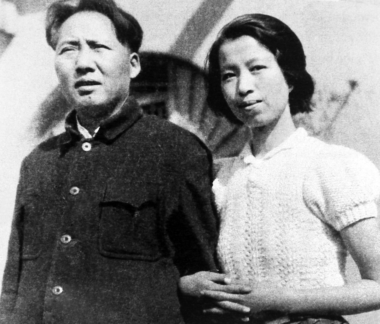 Young Jiang Qing, Mao Zedong in Yan'an.